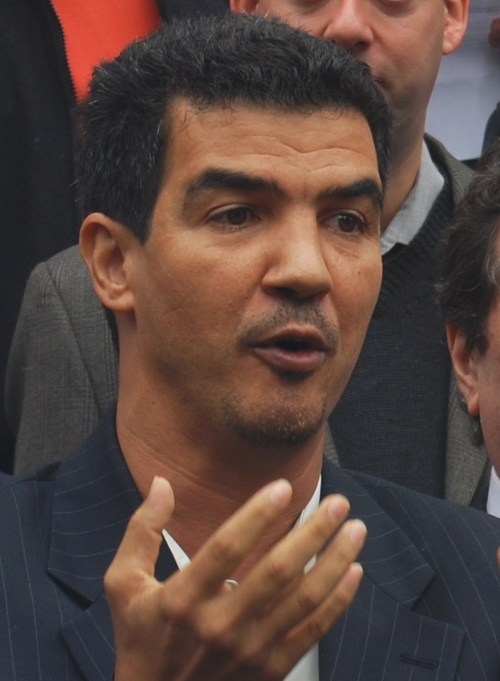 Ydanis Rodriguez speaking at a press conference at City Hall in lower Manhattan in 2008. The conference was called by Norman Siegel and Eric Adams to protest Mayor Michael Bloomberg's plan to overturn term limits. Norm Siegel is on Rodriguez' right.